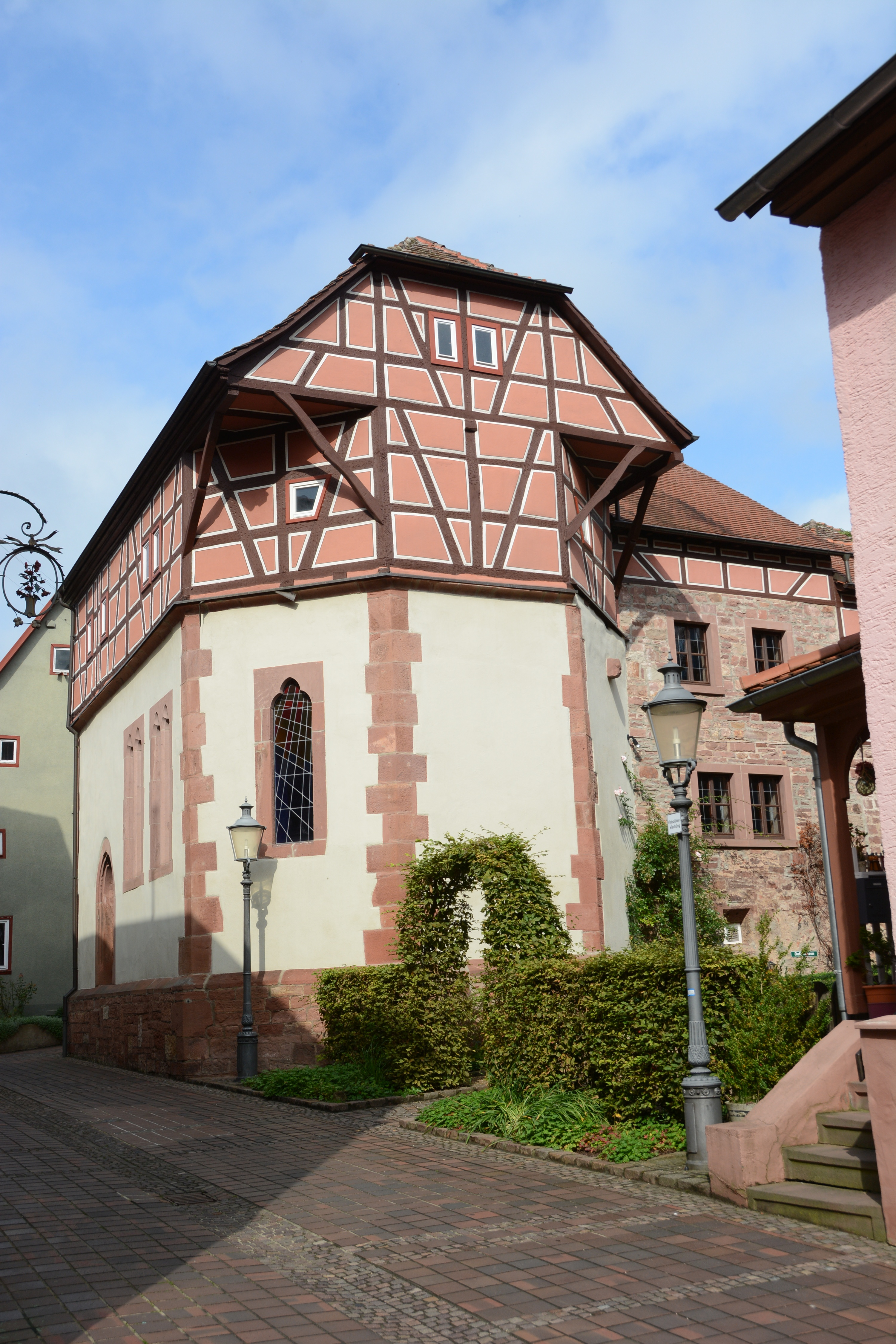 Beguinage, Buchen (Odenwald), Germany, chapel